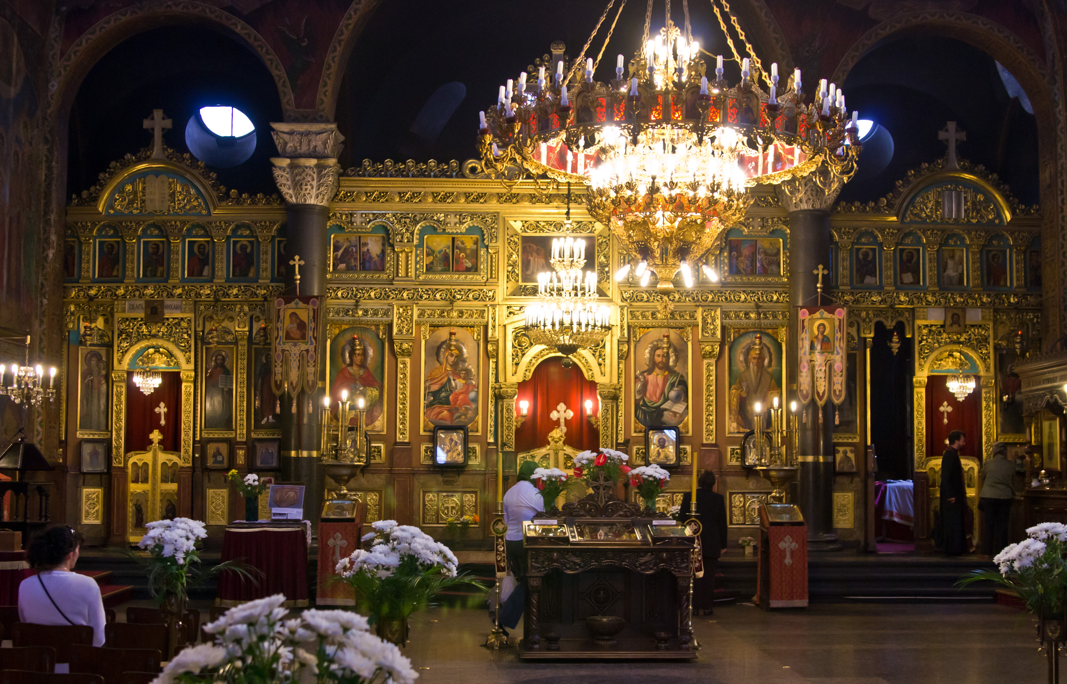 St Nedelya Church, Sofia